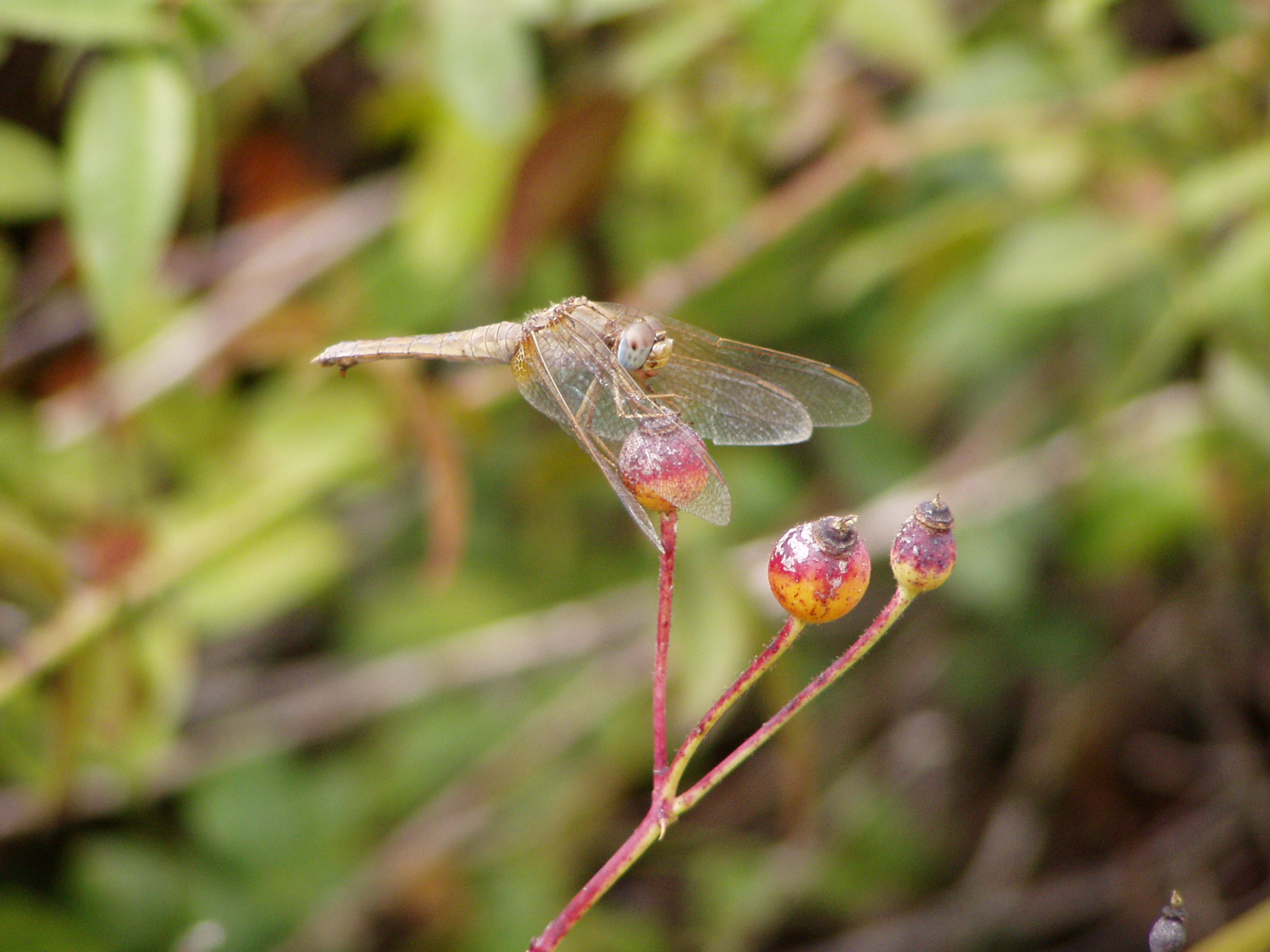 Scarlet Darter. Female. On agricultural habitat. Alcobaça, Portugal.